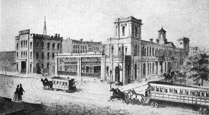 The Harlem Railroad terminal at 4th/Madison and 26th, later also a terminal for the New Haven Railroad.